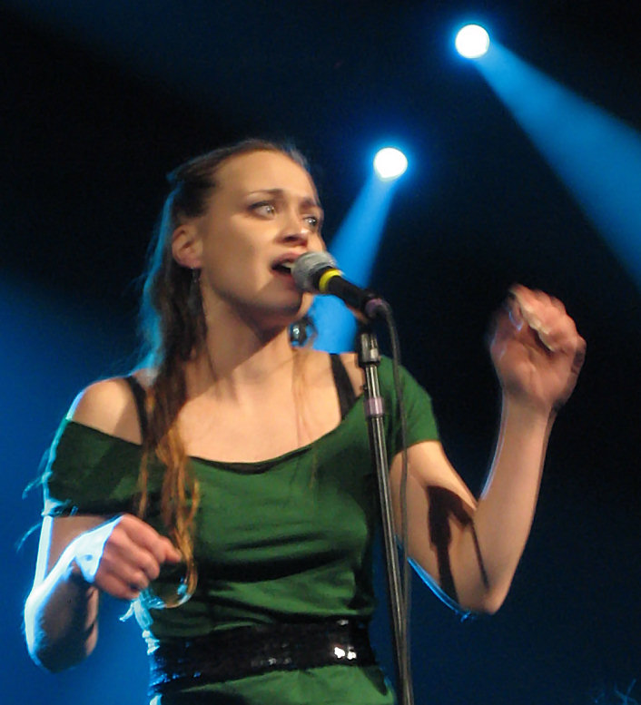 Fiona Apple performing in Seattle